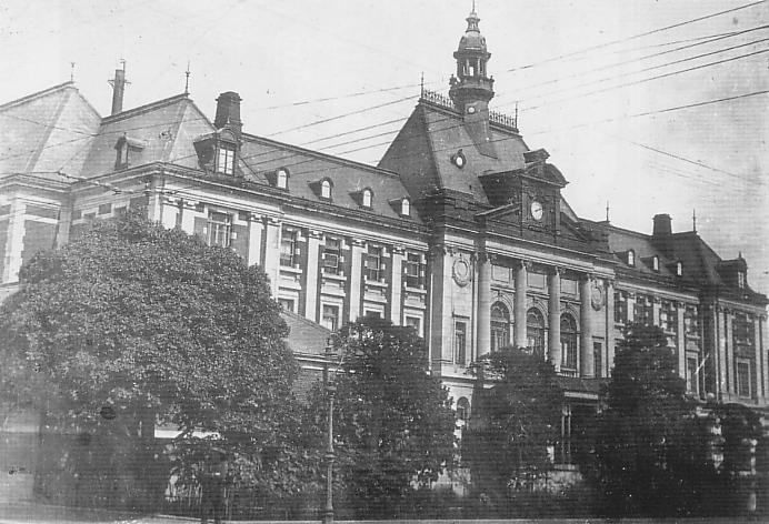 Kanagawa Prefectural Office before Great Kanto earthquake